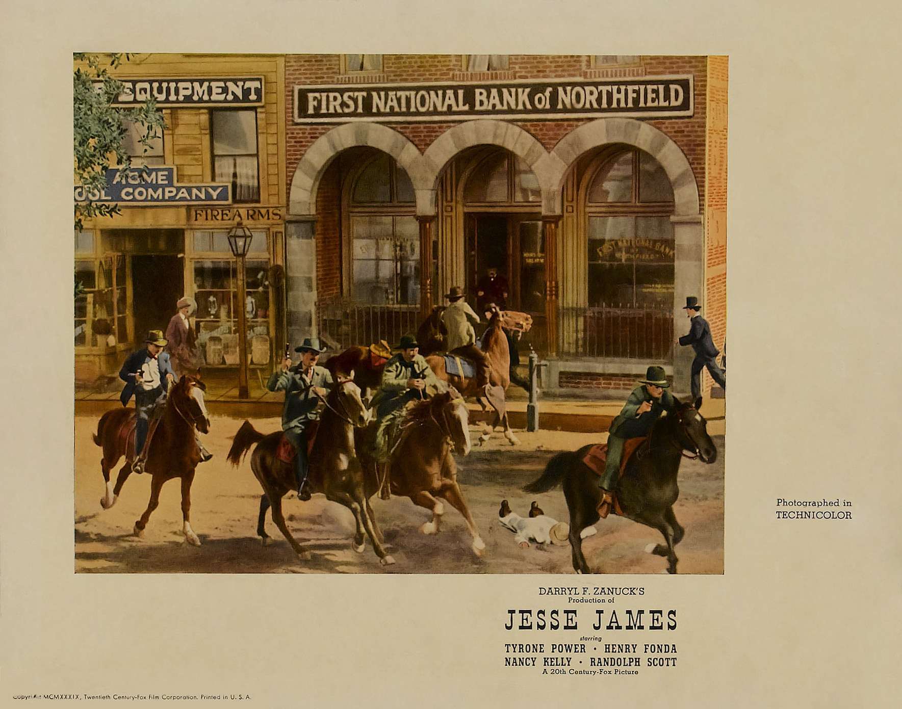 Poster - Jesse James - Directed by Henry King - 1939